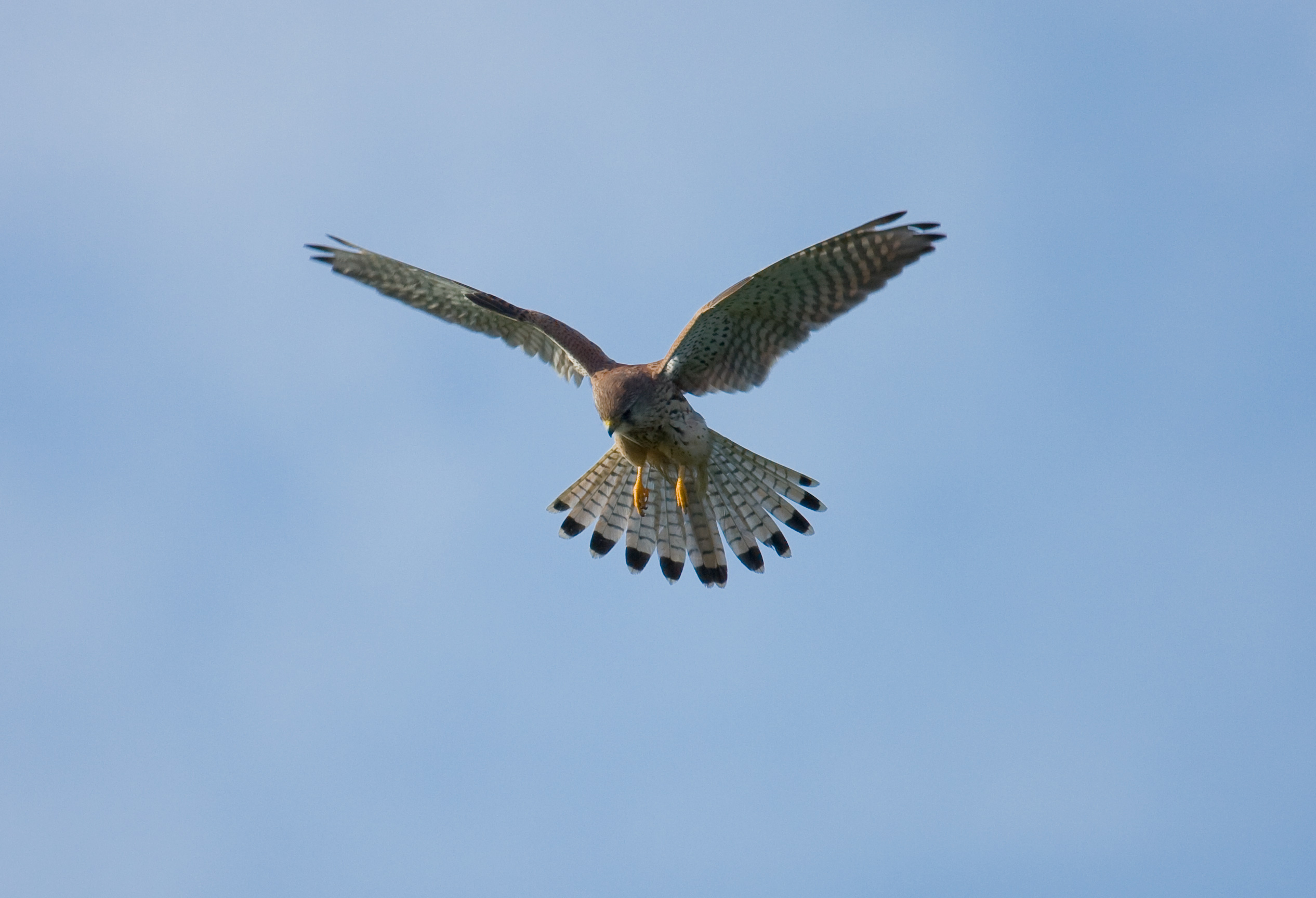 Common Kestrel